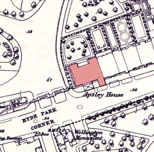 Apsley House on an 1869 Ordnance Survey map, showing its position at the end of a terrace. The neighbouring houses were demolished in the post World War II period to allow Park Lane to be straightened and widened. The Wellington Monument has been moved since this time.